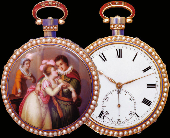 Pocket watches «Romeo and Juliet» for Chinese market produced by Swiss company Bovet Fleurier, circa 1830